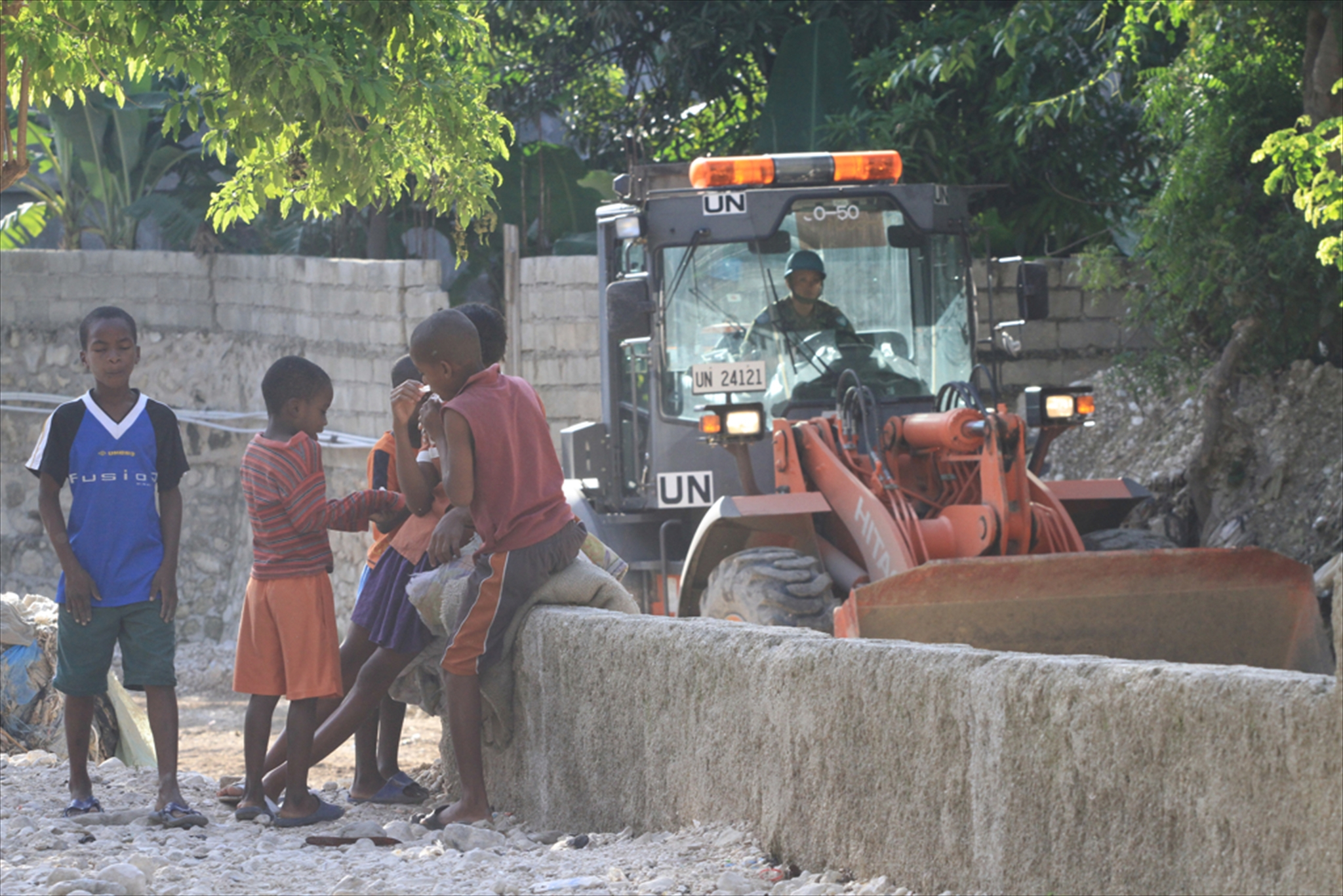 Title ハイチ派遣国際救援隊 施設作業_R.jpg Album 国際平和協力活動等（及び防衛協力等） 国連ハイチ安定化ミッション 施設作業